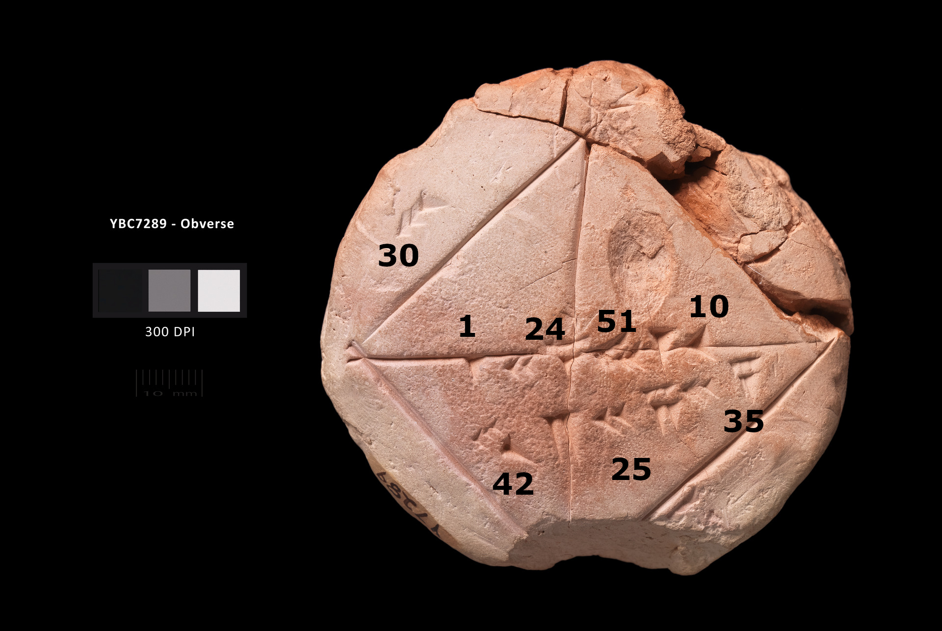 Labeled photograph of the Yale Babylonian Collection's Tablet YBC 7289 obverse (YPM BC 021354). This tablet shows an approximation of the square root of 2 (1 24 51 10 w: sexagesimal) using the Pythagorean theorem for an isosceles triangle. Yale Peabody Museum description: Round tablet. Obv drawing of square with diagonal and inscribed numbers; rev drawing of rectangle with inscribed diagonal but numbers badly preserved and unable to be restored; mathematical text, Pythagorean tablet. Old Babylonian. Clay. obv 10.